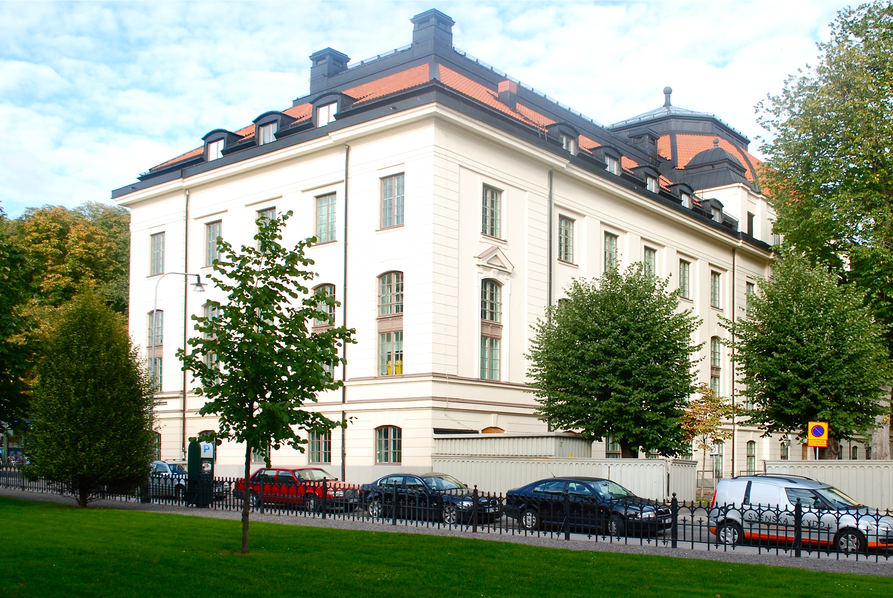 Stockholms Högskola